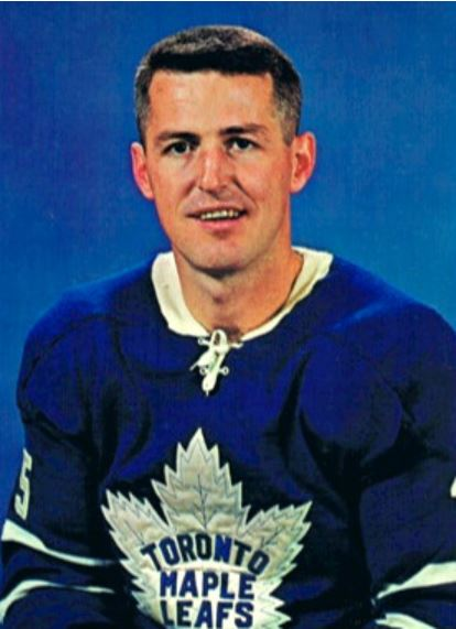 Crew cut: top, medium; back/sides, semi-short taper; sideburns, short; short pomp(pompadour) front, flattened; mid top, flattened; crown, rounded; front hairline, asymmetric, higher on his right side; wavy hair.